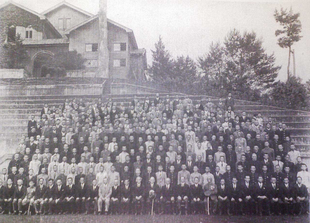 kōa Institute of Technology